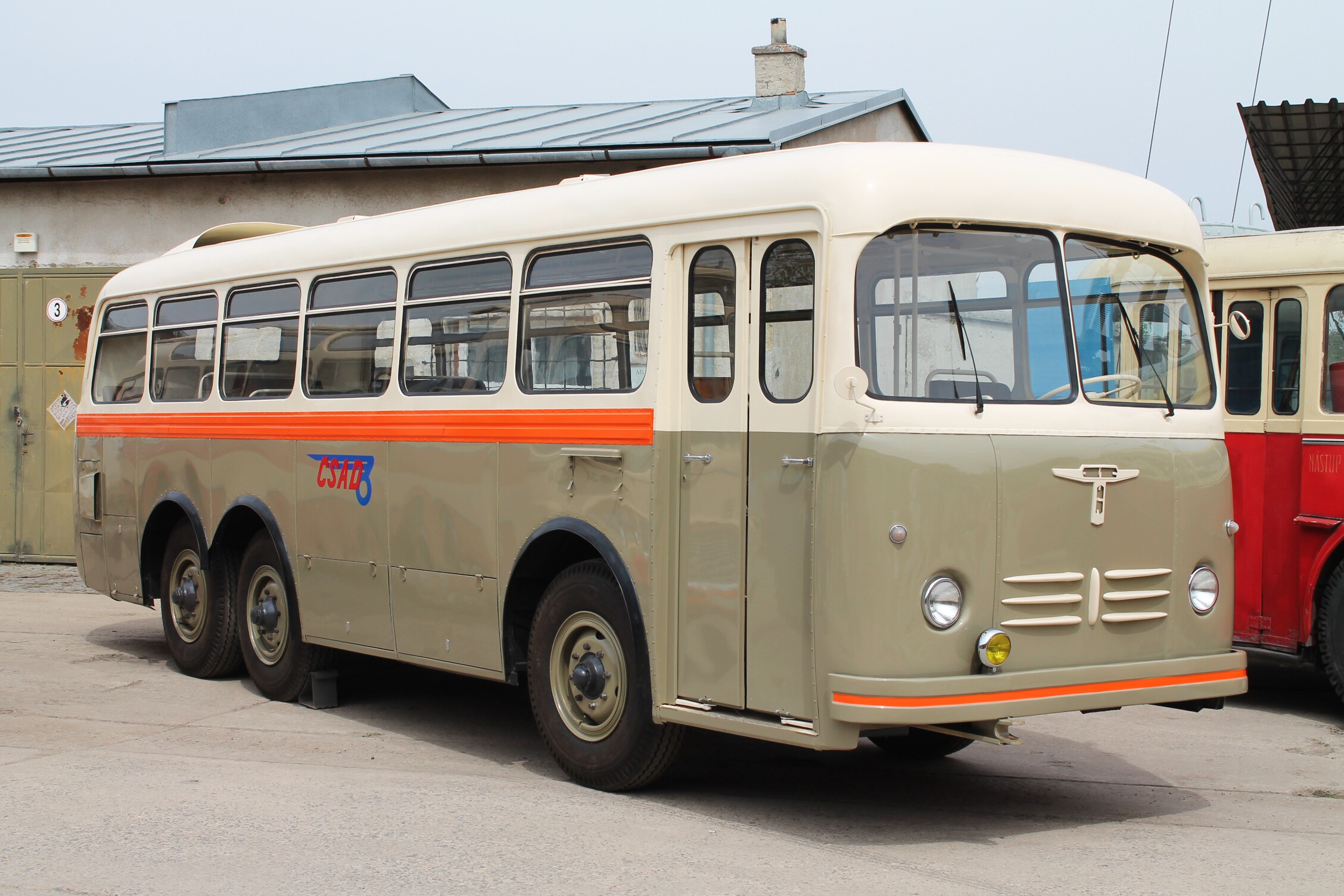 Tatra 500 HB historical bus, depository of Technical Museum in Brno, Czech Republic